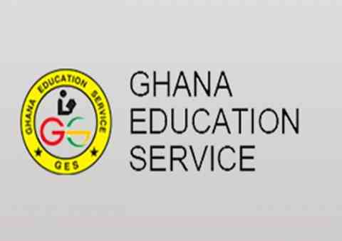 GES (Ghana Education Service) logo